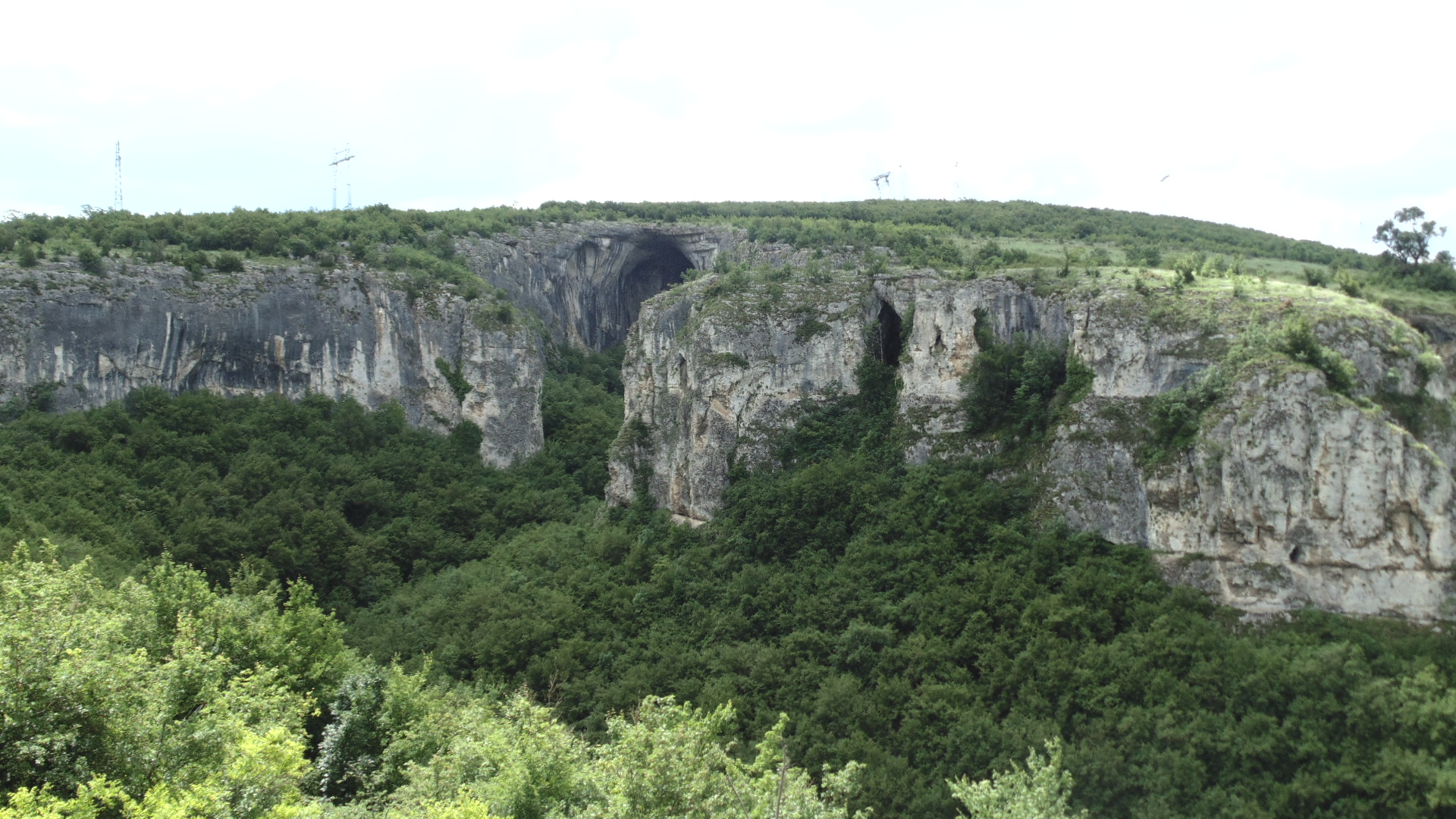 The cave Prohodna - the exit of the cave